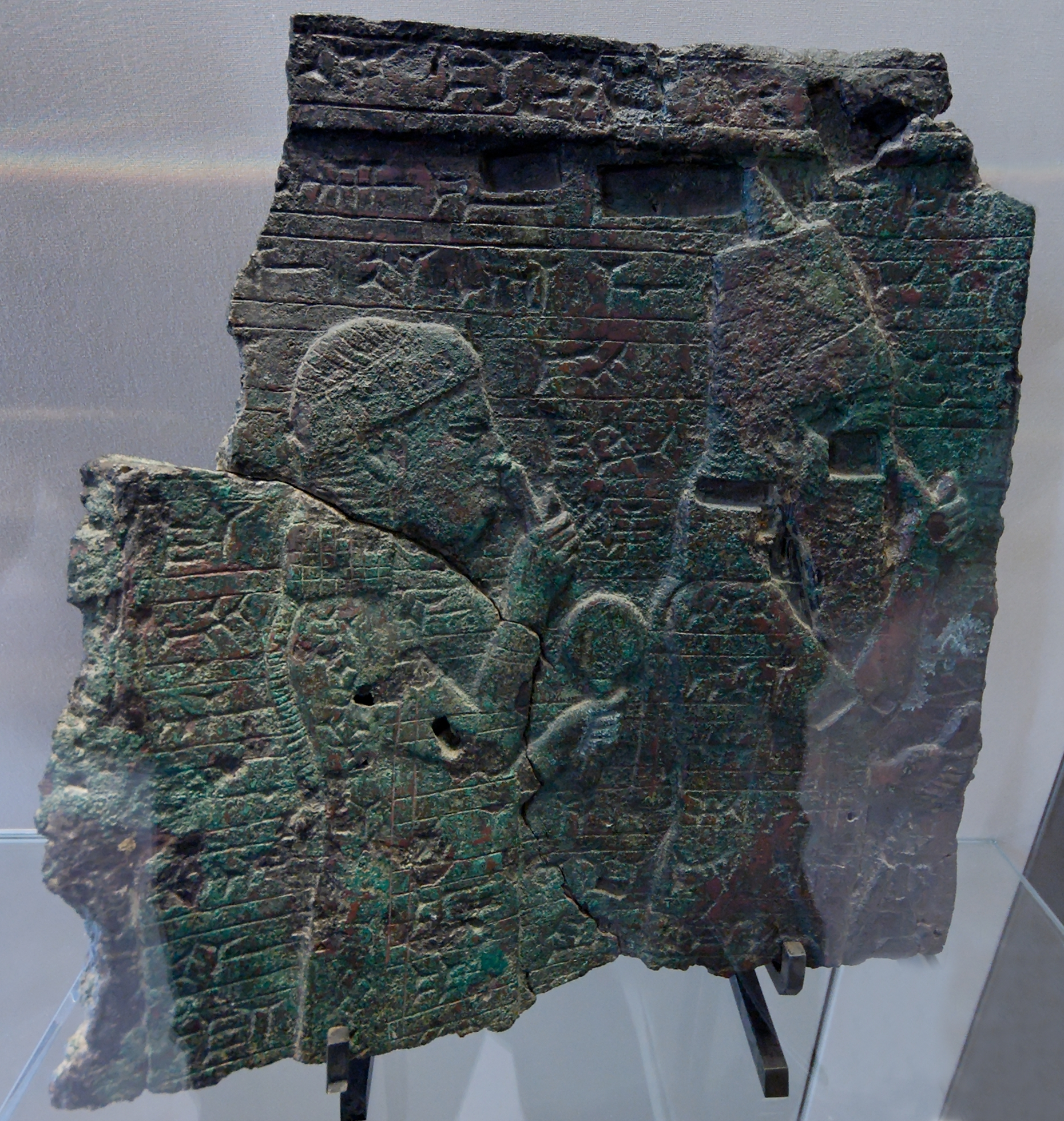 King Esarhaddon of Assyria and his mother Naqi'a-Zakutu in the temple of Marduk. Relief commemorating the restoration of Babylon by Esarhaddon. Bronze (originally gold-plated), ca. 681-669 BC.